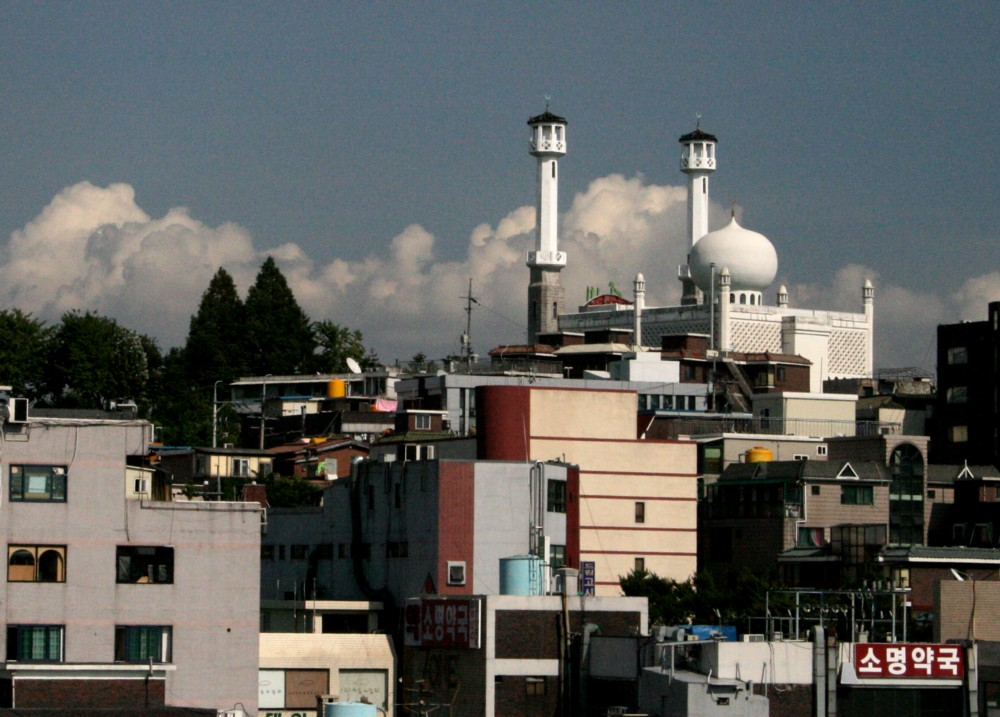 A view of Itaewon, Seoul, South Korea